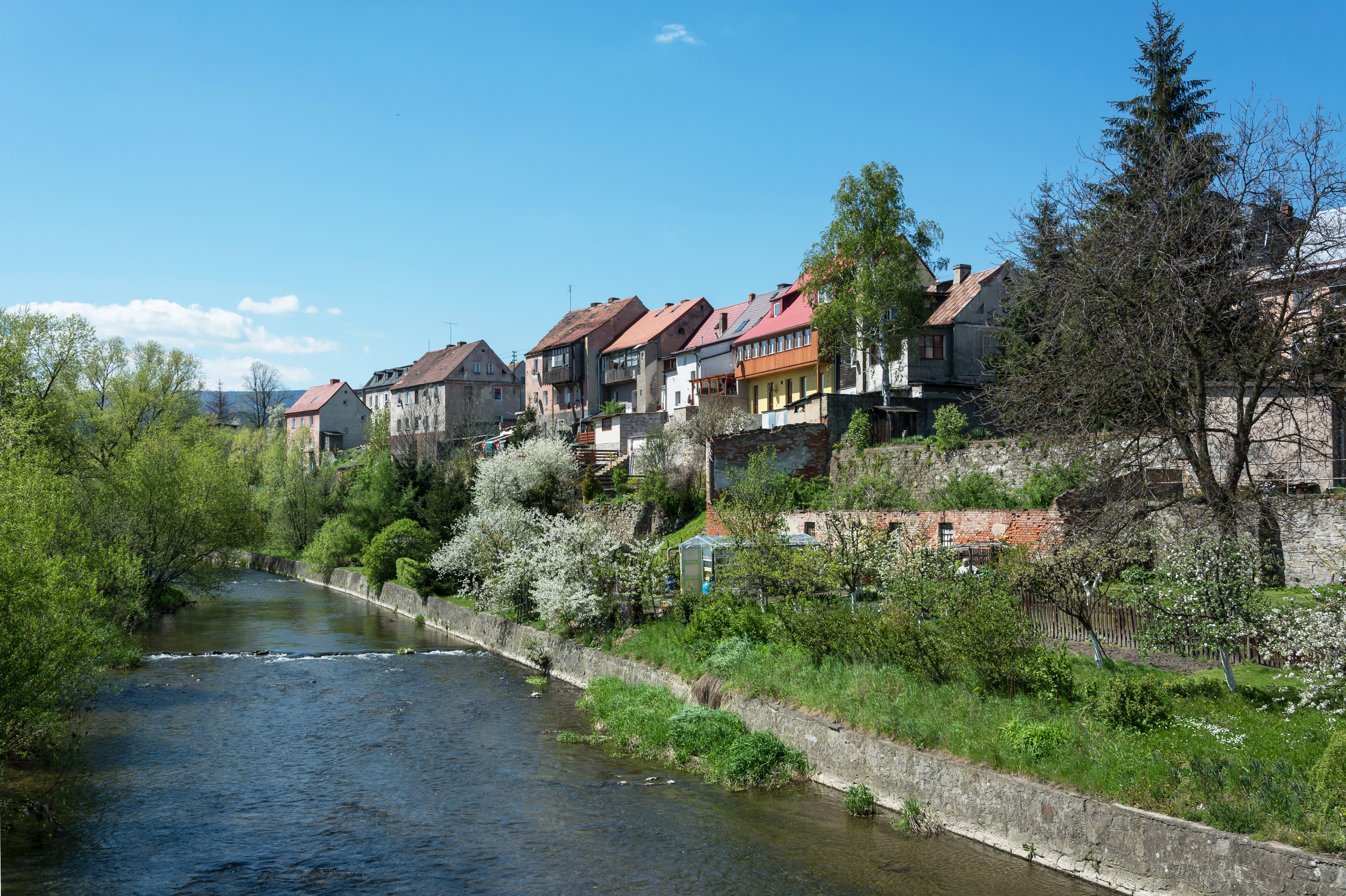 Nysa Kłodzka in Bystrzyca Kłodzka